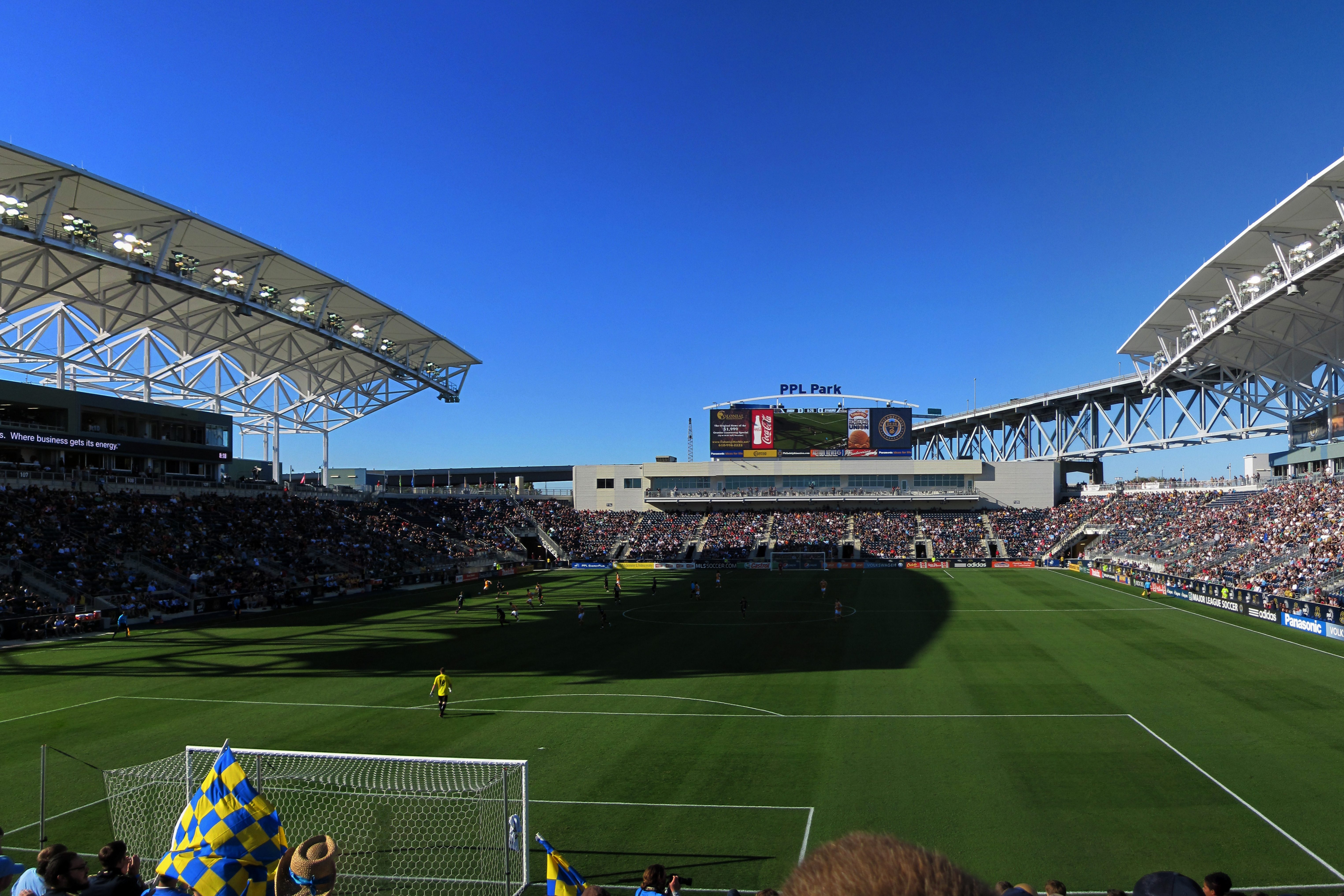 View of the interior of PPL Park, from the Sons of Ben supporters section, the River End, captured during the ninth minute of play of the Union v. Dynamo match October 2, 2010.